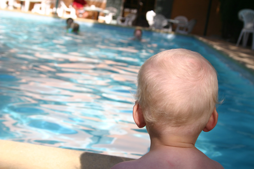 Photo taken by me User:nn:Hogne to illustrate an article about Free will